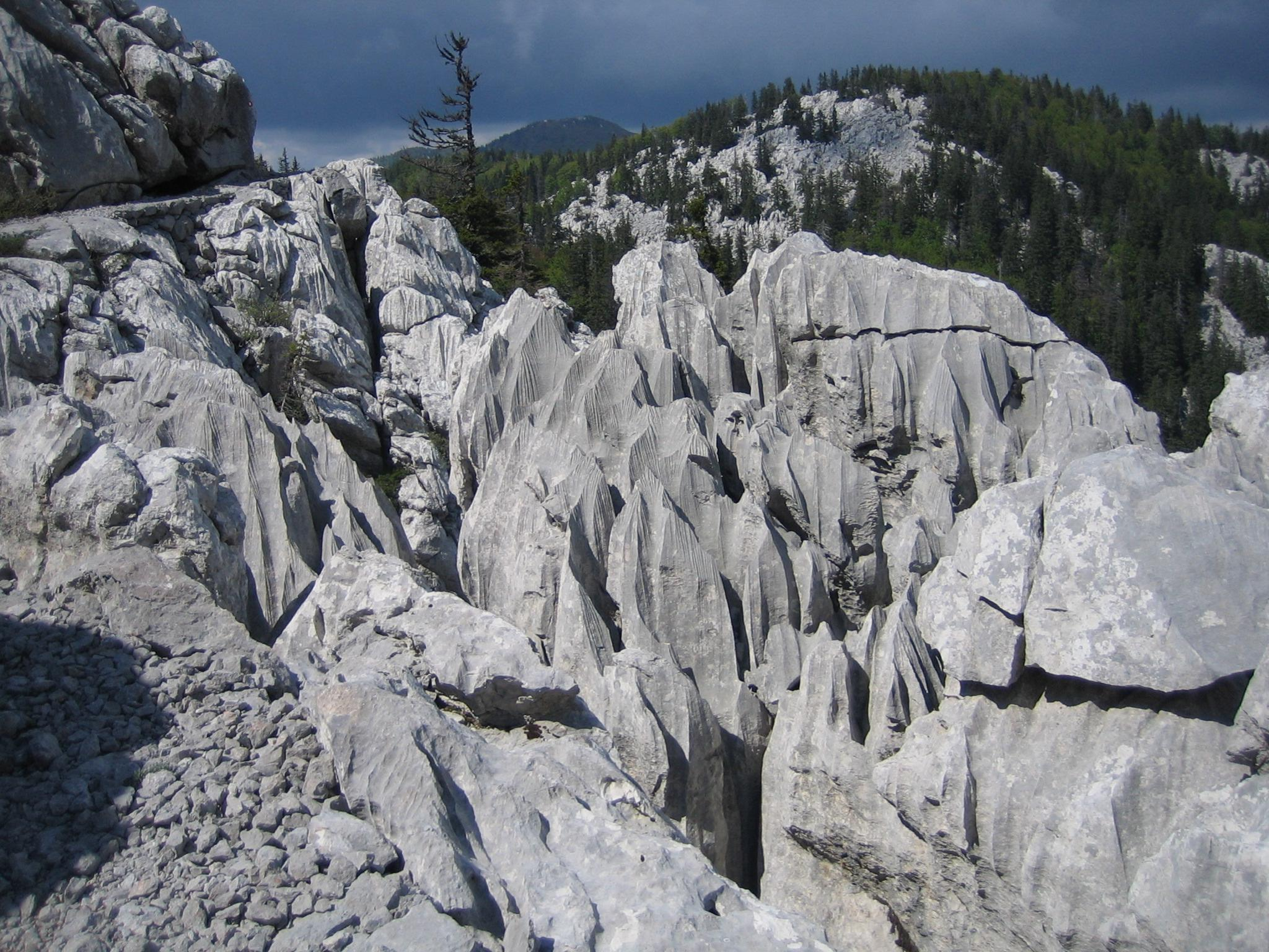 Limestone grooves in National Park Sjeverni Velebit in Croatia.